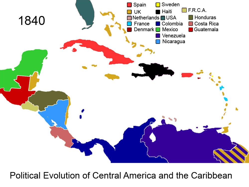 Political Evolution of Central America and the Caribbean